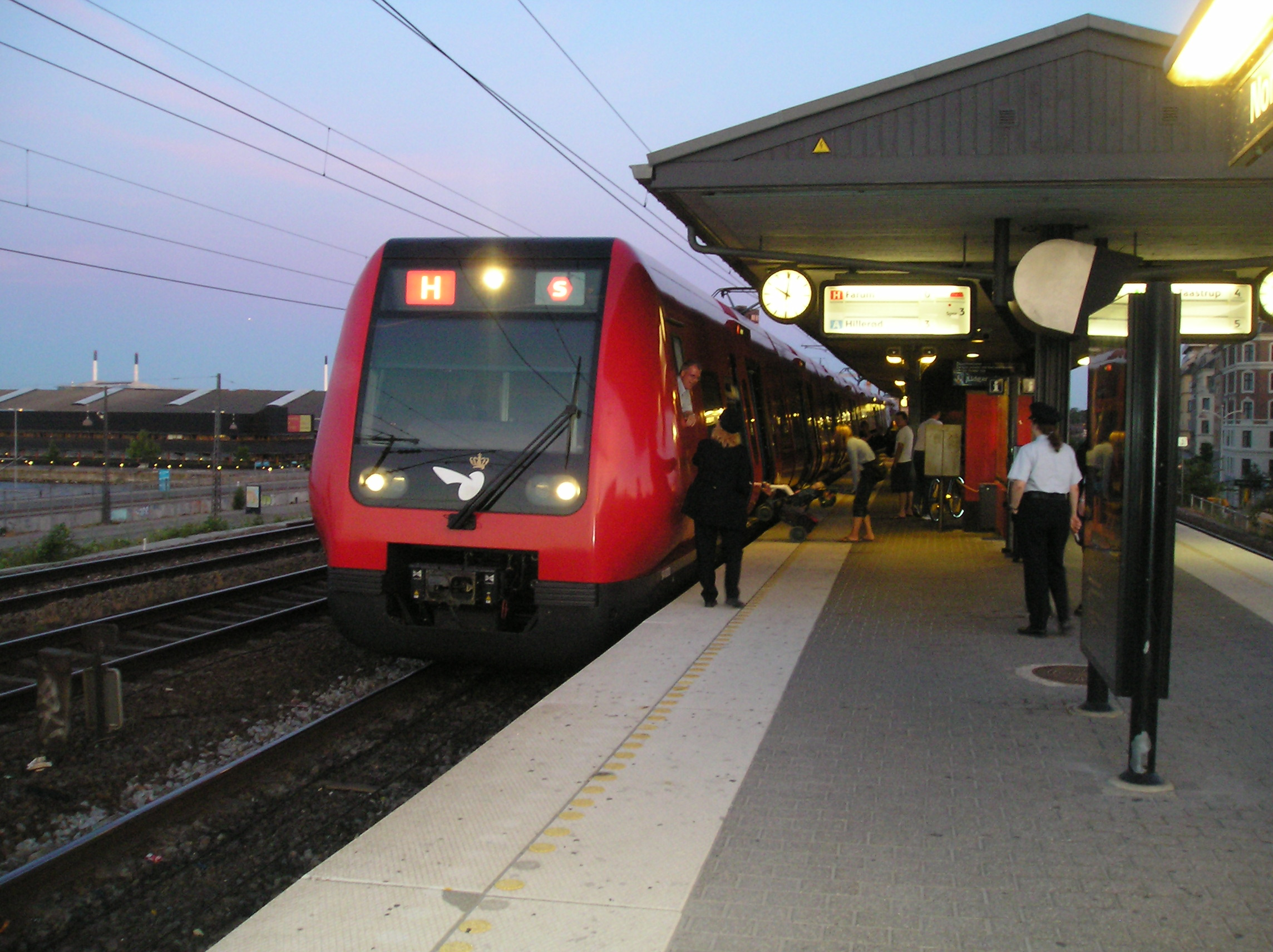 4th generation S-train on line H at Nordhavn Station in Copenhagen.